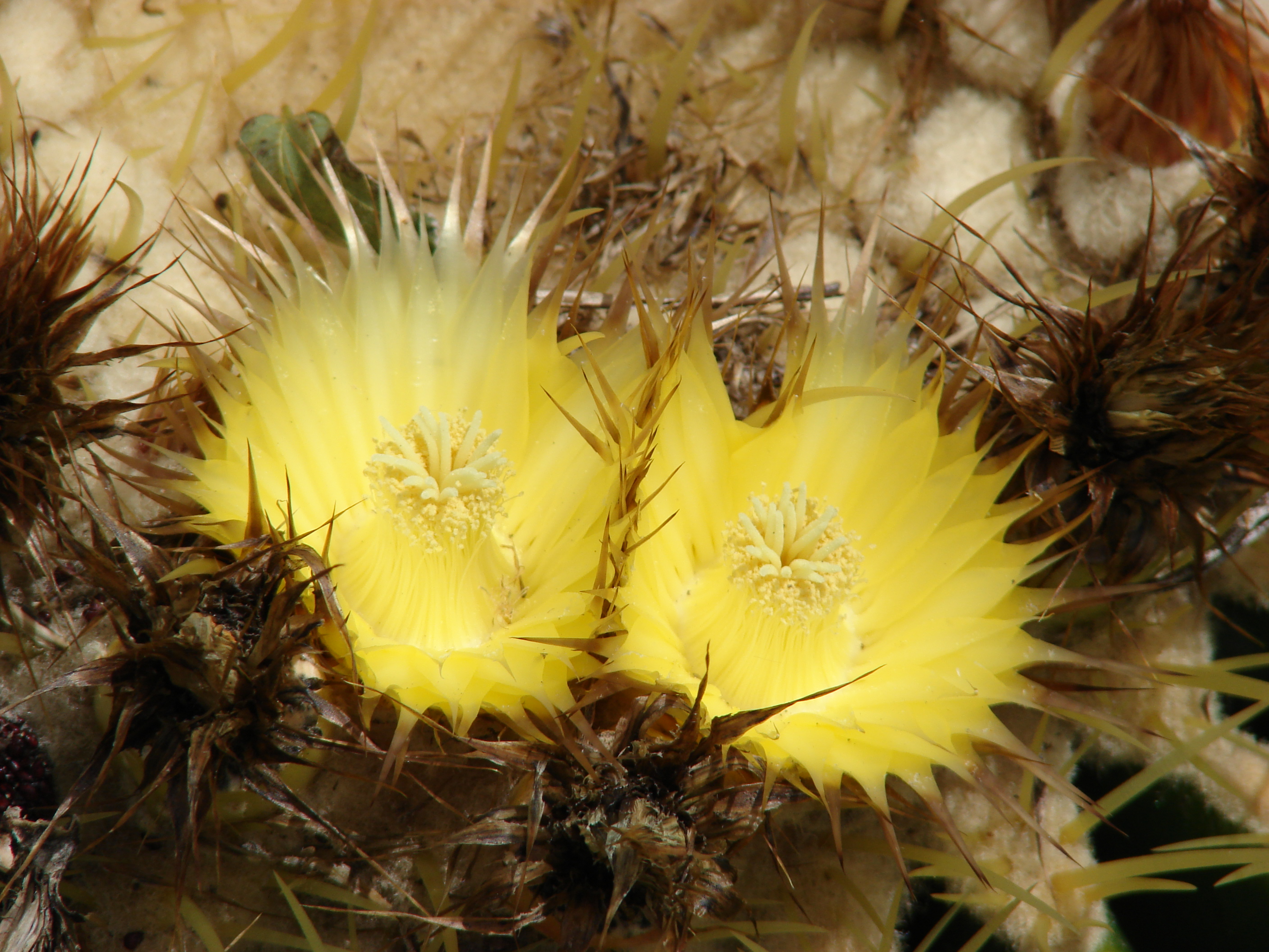 Echinocactus grusonii (flowers). Location: Maui, Lualailua